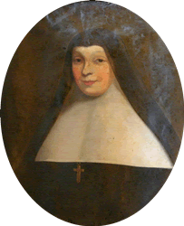 Françoise II de Foix, abbess of Notre Dame de Saintes from 1606 to 1666